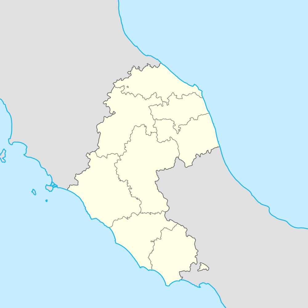 Map of the Roman Republic (18th century)